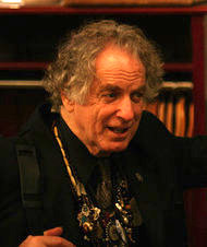 description: David Amram photographer: Doug Bowman photographer_location: DeKalb IL, USA photographer_url: [1] flickr_url: [2] taken: November 9, 2005